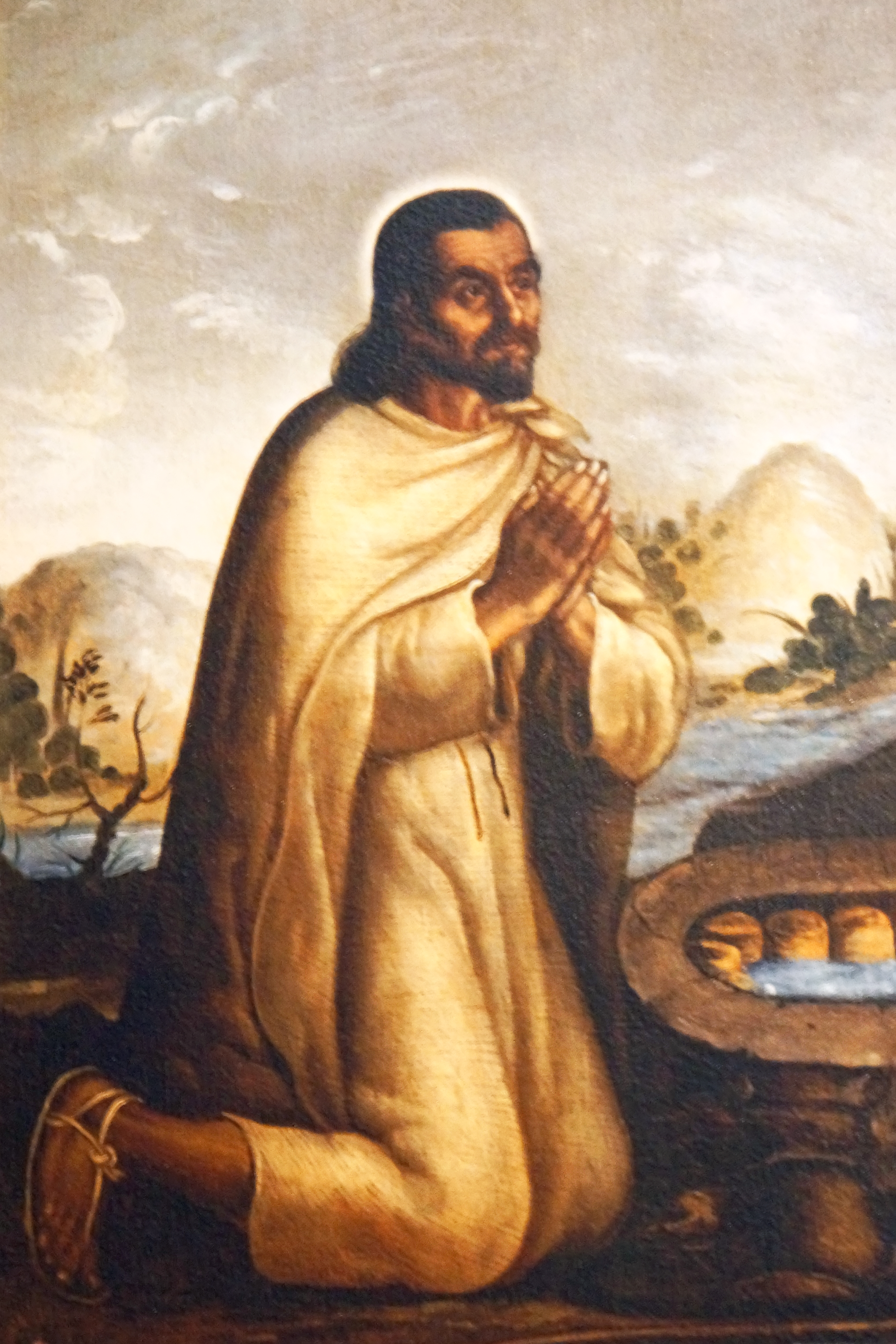 PLEASE, NO invitations or self promotions, THEY WILL BE DELETED. My photos are FREE to use, just give me credit and it would be nice if you let me know, thanks. Juan Diego, who saw Our Lady of Guadalupe Notre-Dame Cathedral or simply Notre-Dame, is widely considered to be one of the finest examples of French Gothic architecture and among the largest and most well-known church buildings in the world. Construction began in 1163 during the reign of Louis VII, and opinion differs as to whether the Bishop de Sully or Pope Alexander III laid the foundation stone of the cathedral. However, both were at the ceremony in question. It is dedicated to the Virgin Mary. In the 1790s, Notre-Dame suffered desecration during the radical phase of the French Revolution when much of its religious imagery was damaged or destroyed. An extensive restoration began in 1845. The work on the Cathedral continued over the years and was completed between 1250–1345. In 1991, a major program of maintenance and restoration was initiated and took much longer than planned.